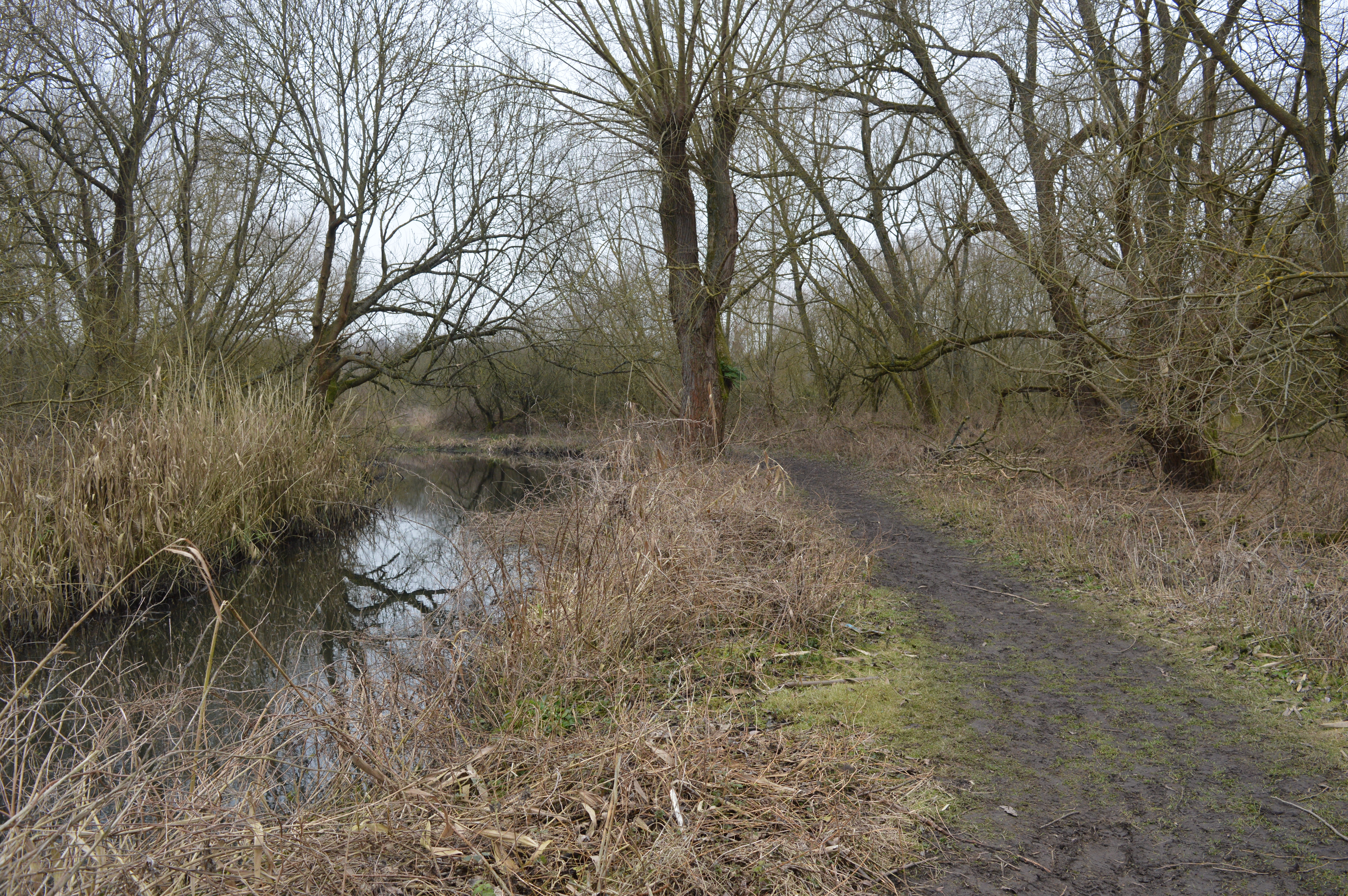 River Lea and Stanborough Reedmarsh, a Local Nature Reserve in Welwyn Garden City, Hertfordshire